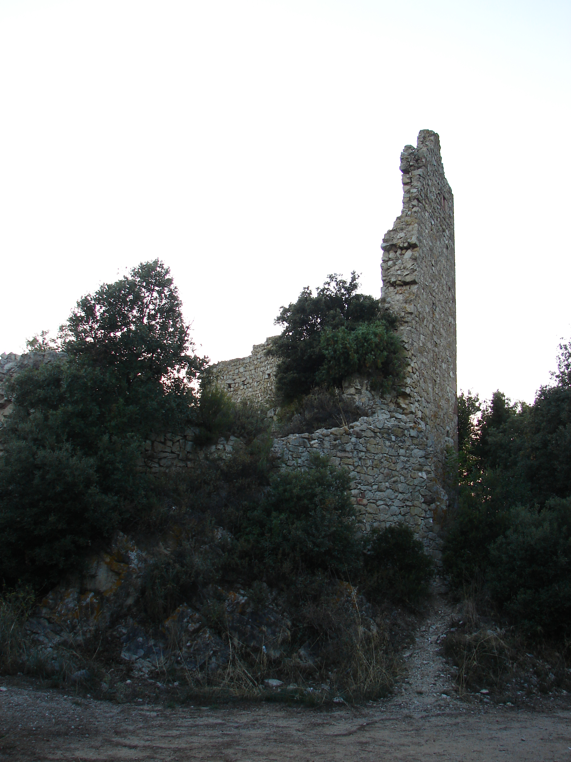 Castell de Montbui